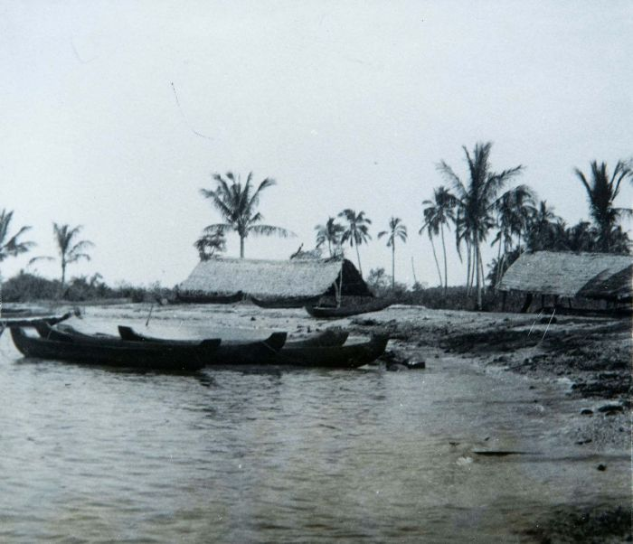 Proas at the beach near Tanjung Pujut